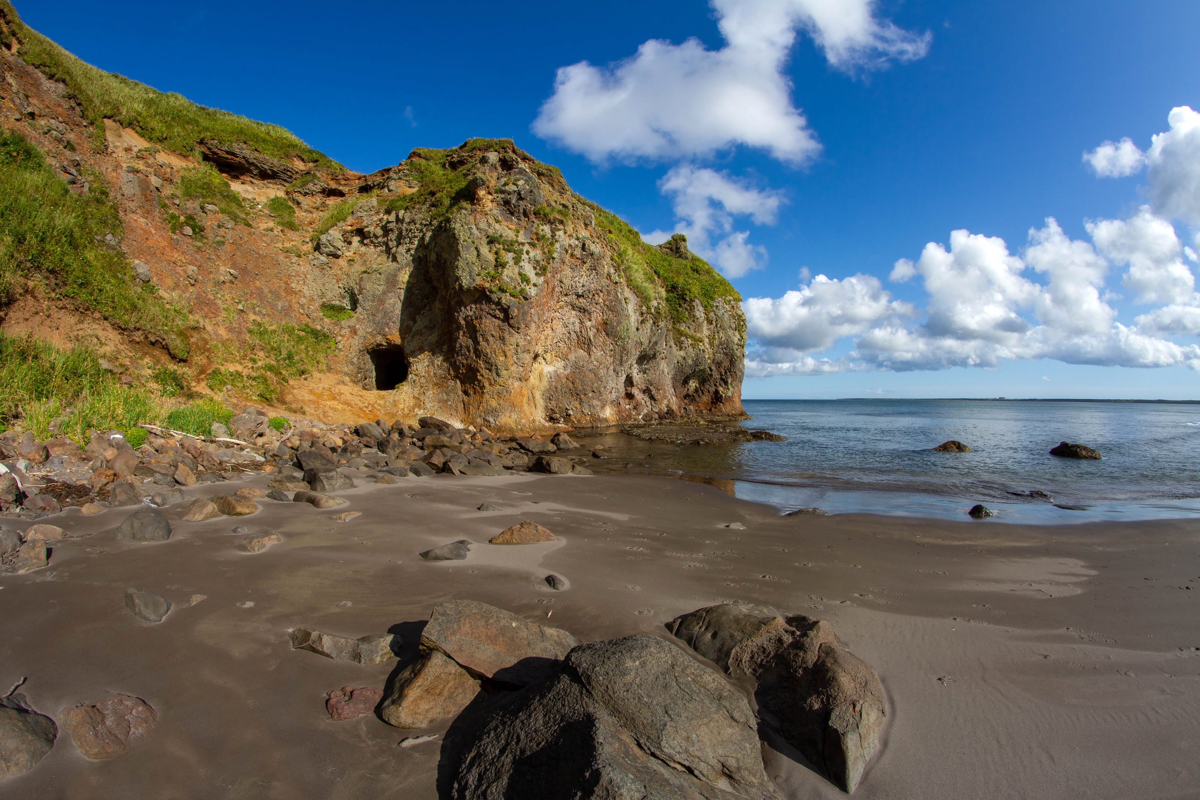 Iturup Island nature, fall 2019